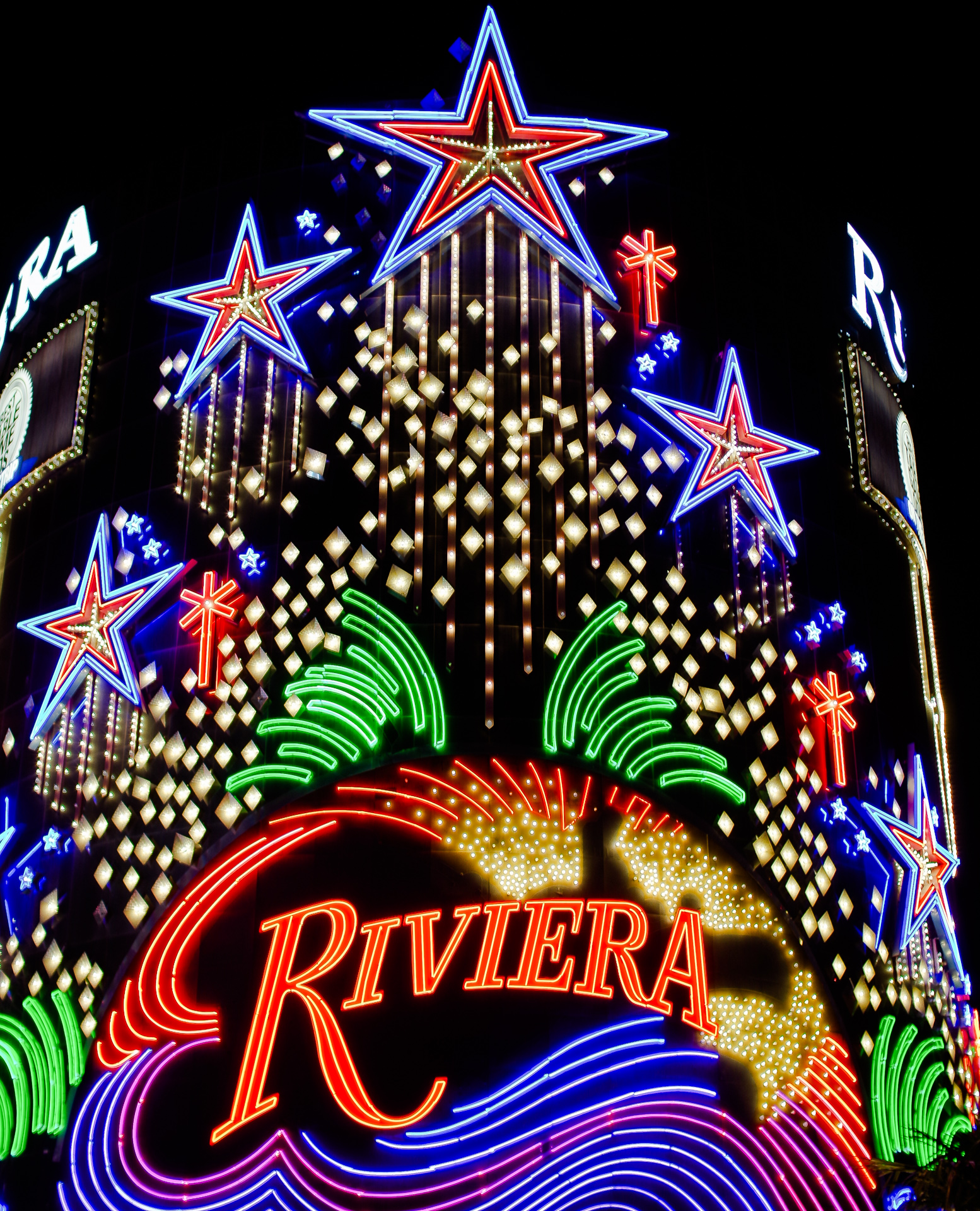 The Riviera Las Vegas Strip Hotel at night